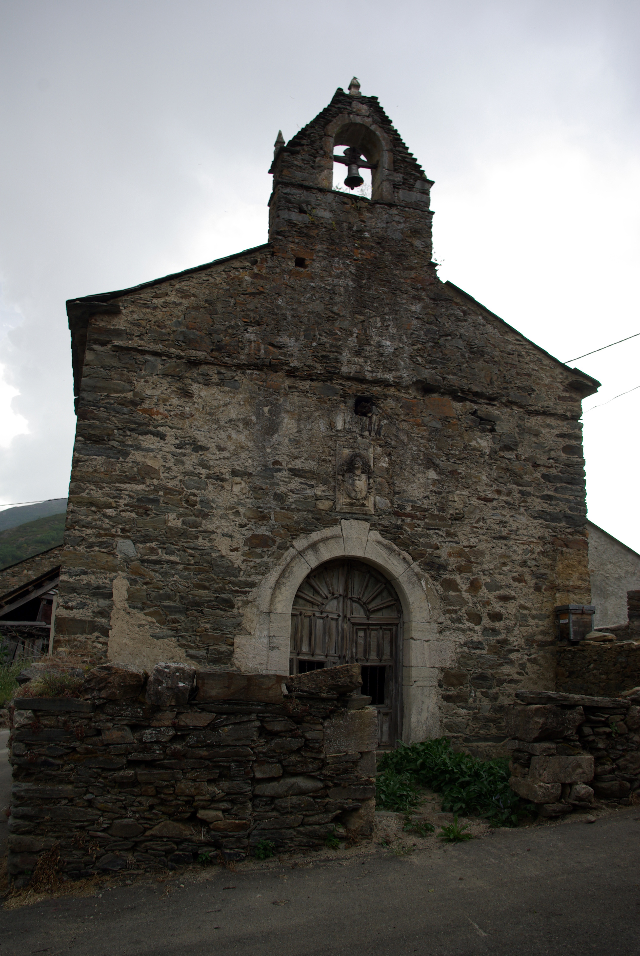 Church in Barrio de la Puente (Murias de Paredes, León, Spain)